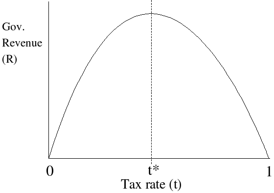 Vllaznim Bytyqi, Economic Analysis I made this image myself using openoffice's draw functionality. Djzanni 16:28, 21 October 2005 (UTC) Copied from EN Wiki, original history: * (del) (cur) 16:33, 21 October 2005 . . Djzanni (Talk) . . 560x394 (9624 bytes) (I created this image myself using OpenOffice's draw functionality. Ondrejk 22:21, 27 April 2006 (UTC)) * (del) (rev) 16:28, 21 October 2005 . . Djzanni (Talk) . . 560x394 (10442 bytes) (I made this image myself using openoffice's draw functionality. Ondrejk 22:21, 27 April 2006 (UTC))